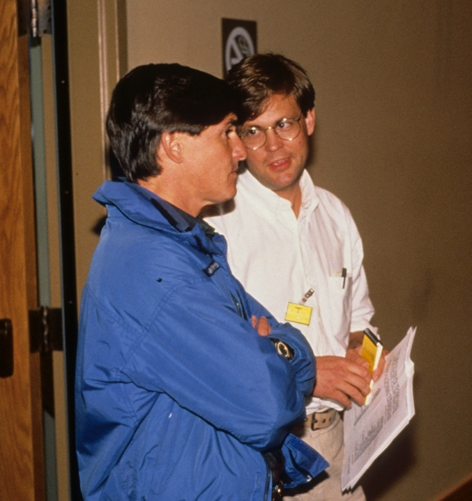 Alaska lieutenant governor Steve McAlpine listens to Ernie Piper, special assistant to Alaska governor Steve Cowper, during a meeting or press conference during the Exxon Valdez Oil Spill cleanup